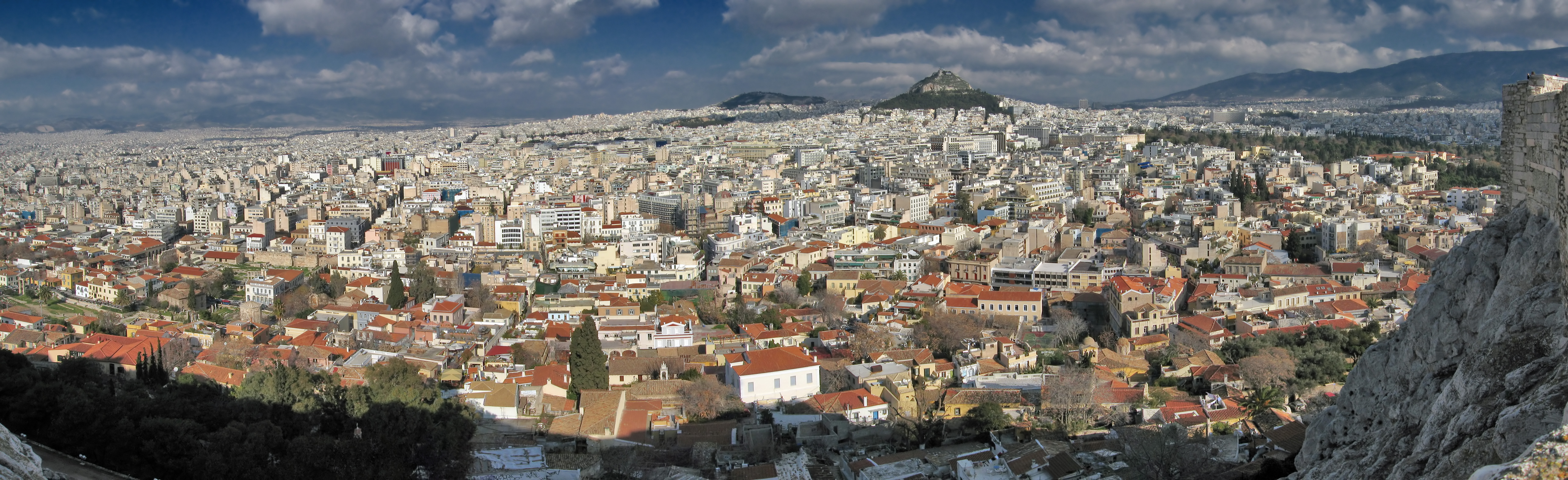 Panoramic view of Athen